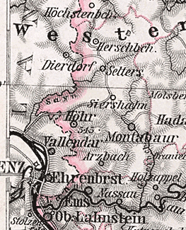 Detail from a map of Hesse.